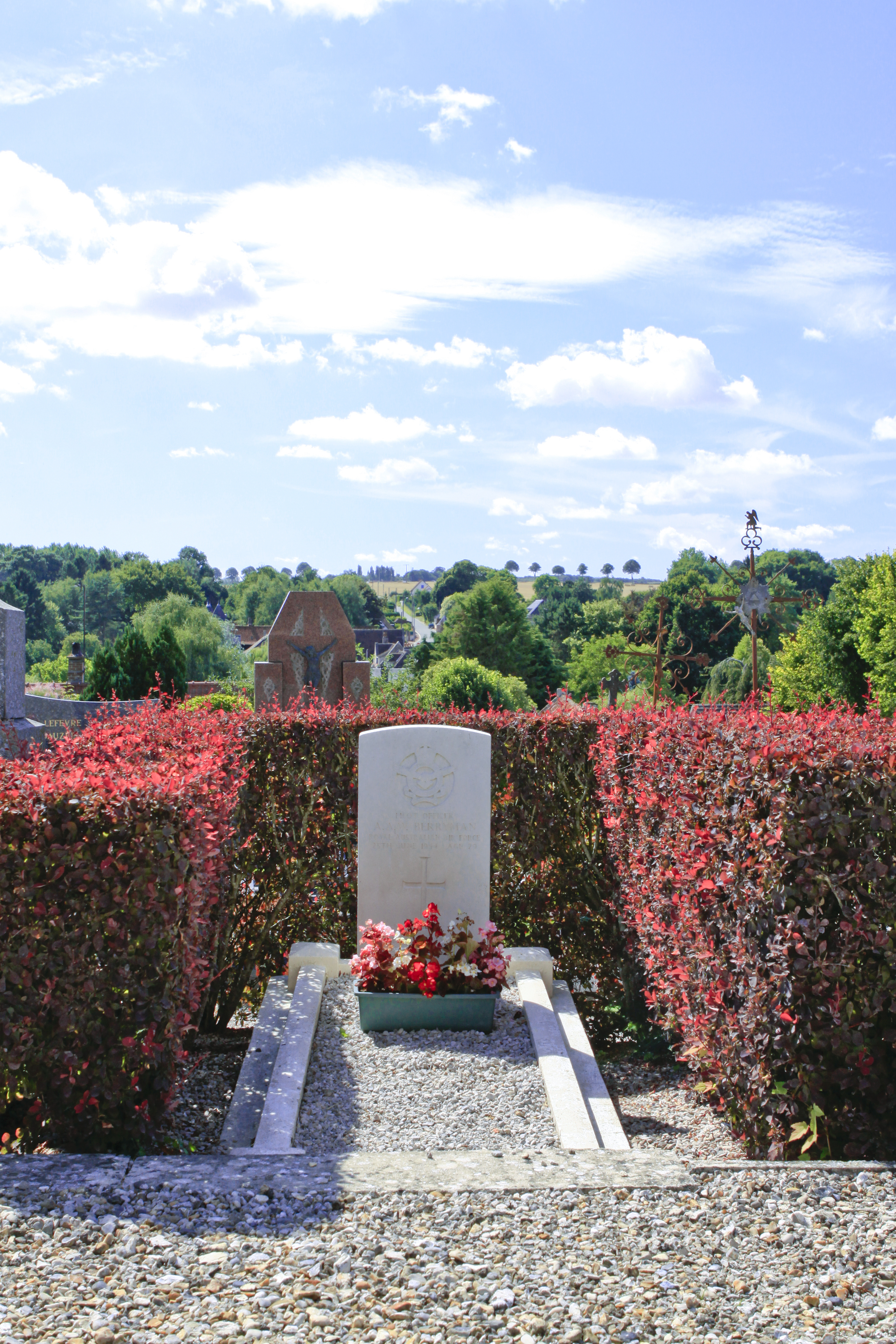 Neuilly-l'Hopital Churchyard